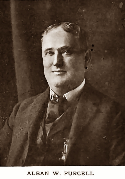 Actor Alban W. Purcell